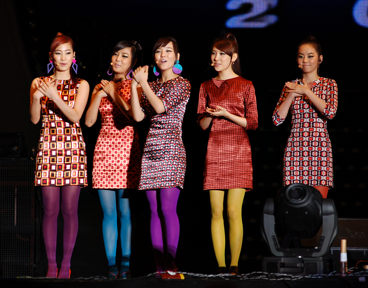 The Wonder Girls at the 2008 Korea Food Expo opening ceremony